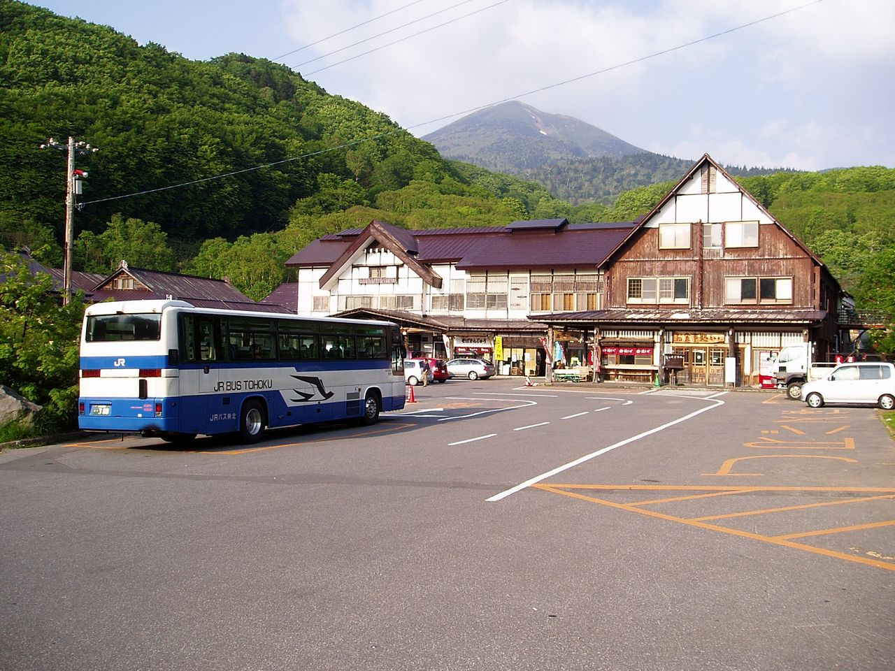 JR Bus Tohoku 647-9928 "Towada-hoku Line" Hino KC-RU3FSCB at Sukayu-Onsen in Aomori City